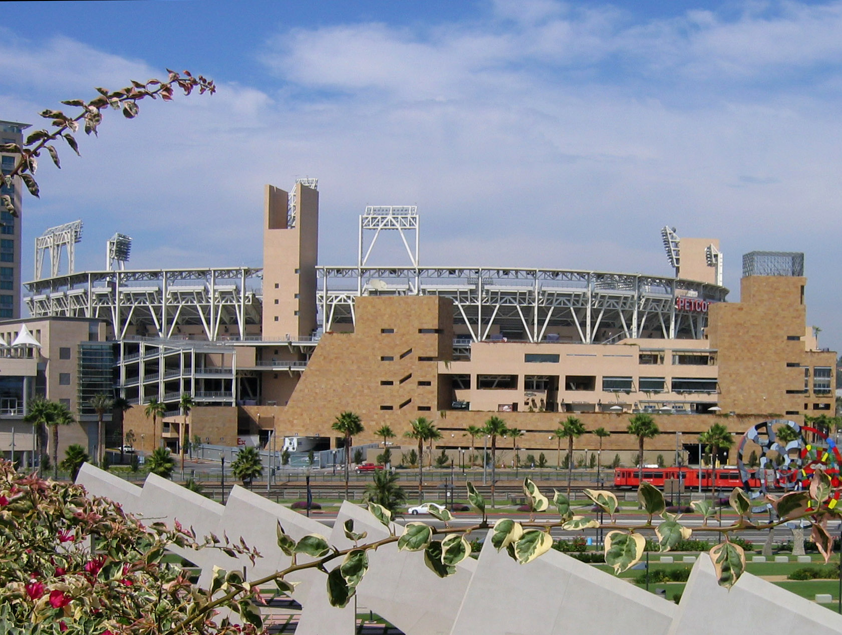 PETCO Park - home of the San Diego Padres - is located in downtown San Diego. Seen here from the southwest side - across the street from the San Diego Convention Center. (The main entrance of the stadium, located behind home plate, is located at far right below the red lettering.)